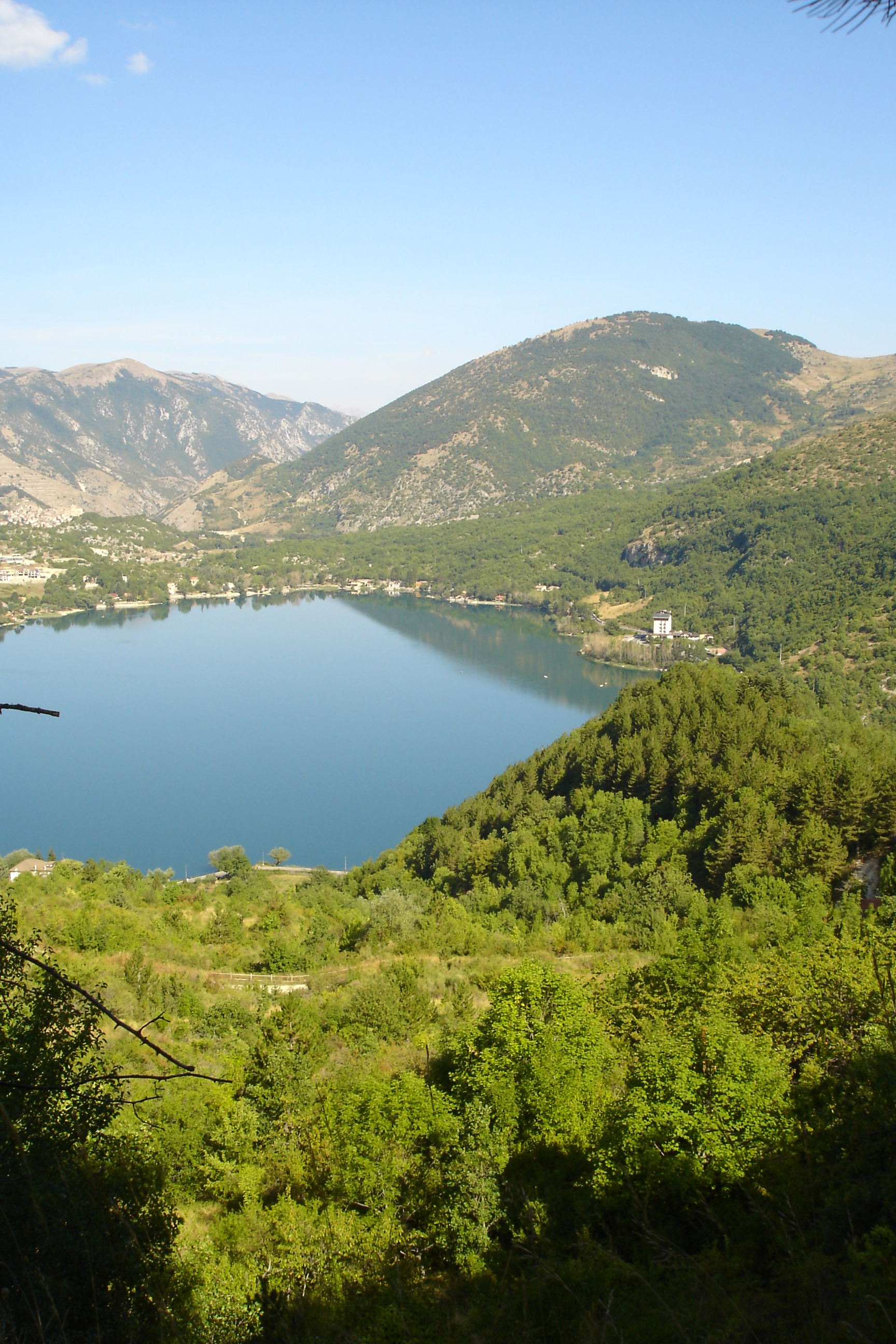 ScannO lake from Saint Giles ermitage